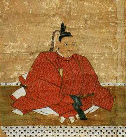 Wakisaka Yasuharu